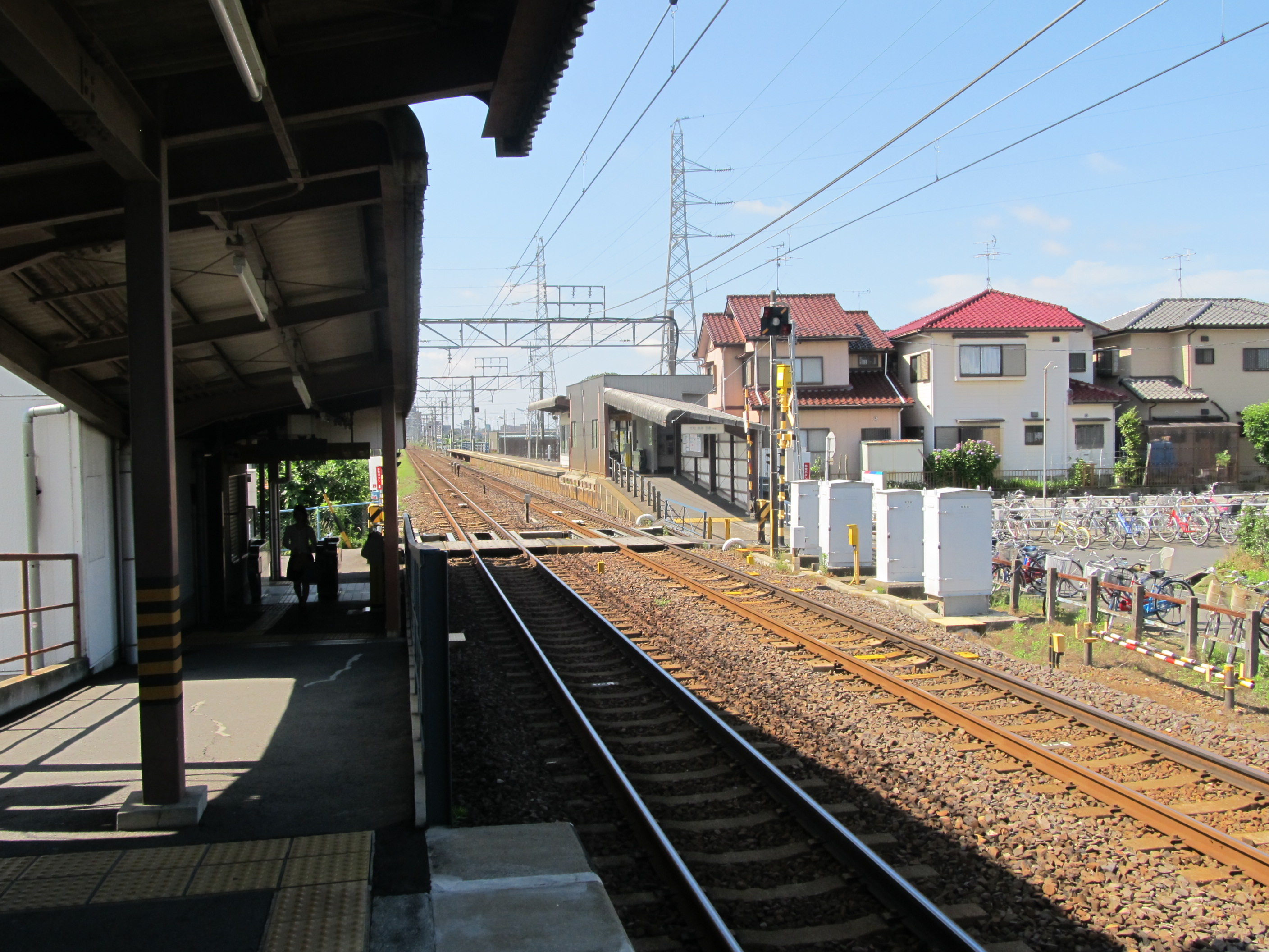 Nagoya Railroad Line